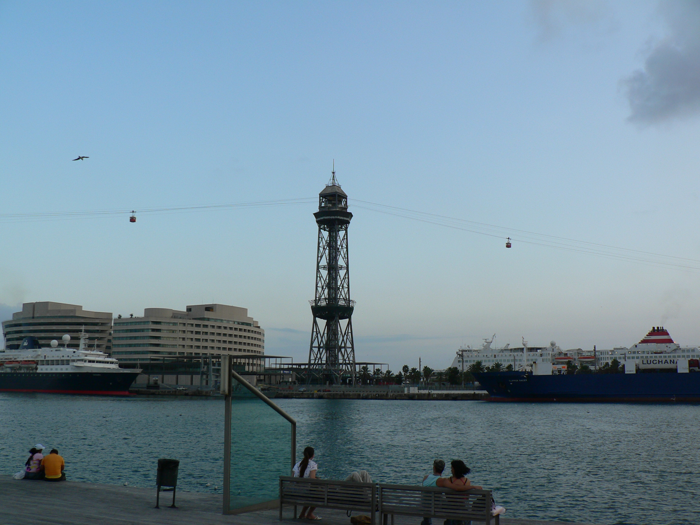 Barcelona, Spain